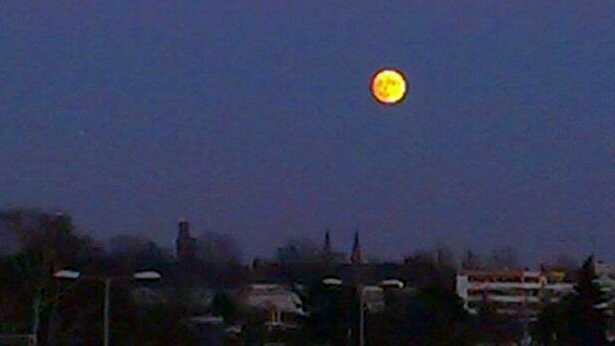 Near full moon over Berlin, Germany approximately 30 minutes after moonrise. Photo taken with 5 megapixel smartphone camera. Exposure setting at -2 and saturation setting at +1 to resolve lunar maria. Cropped from original with minor adjustments to brightness and color.